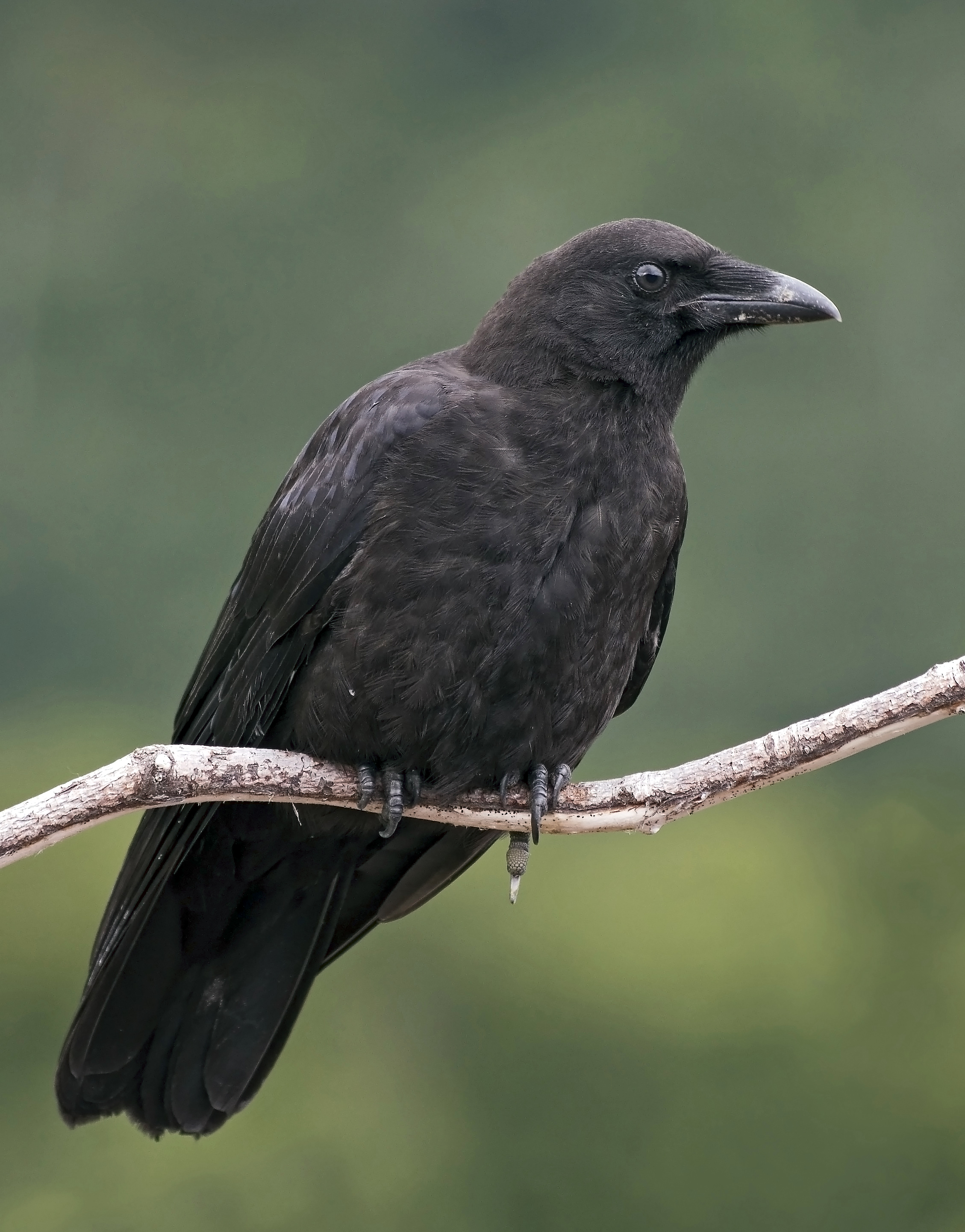 A Northwestern Crow near Whittier, Alaska.